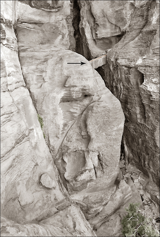 Petra. The aqueduct bridge on wadi Braq.